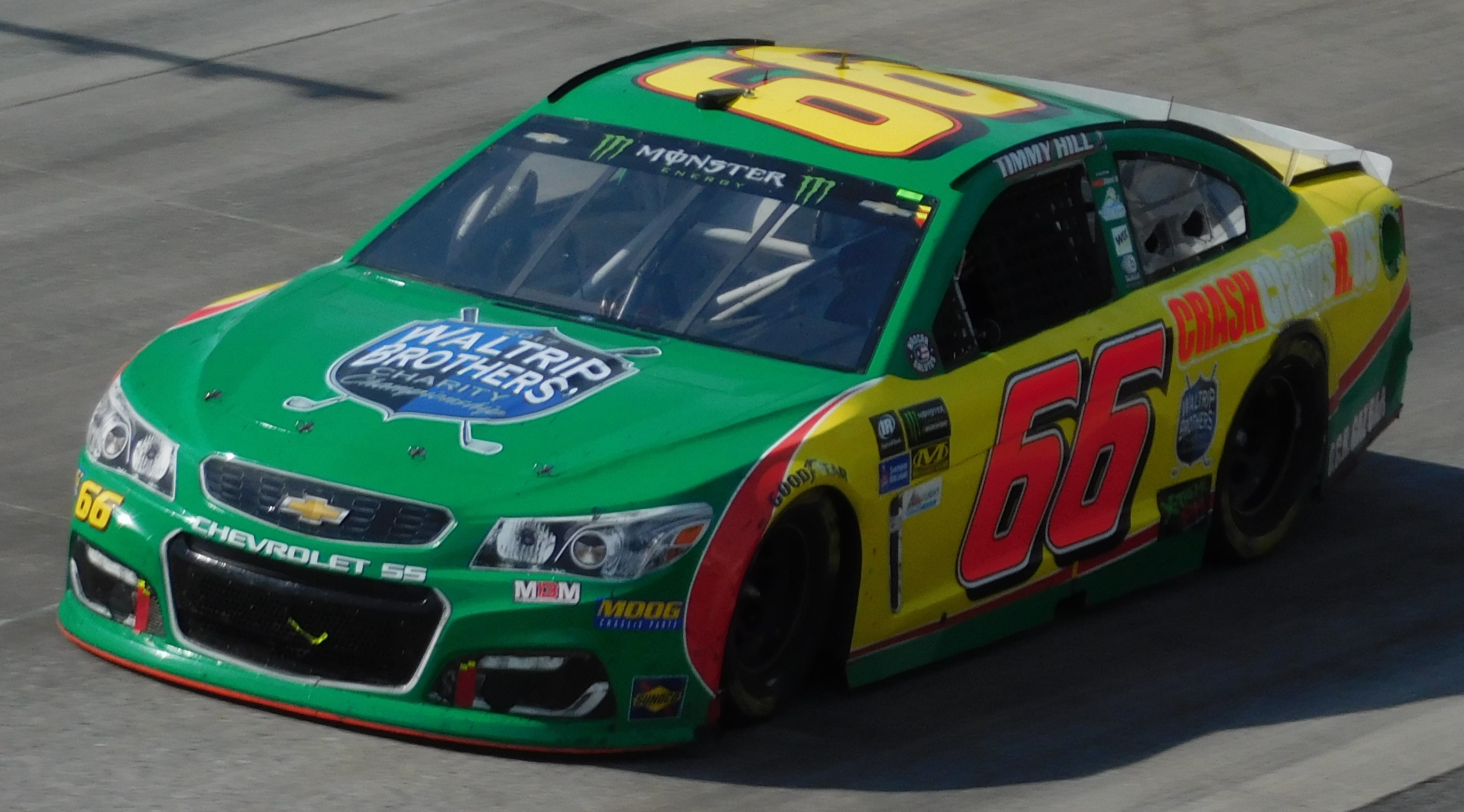 Timmy Hill's No. 66 Waltrip Brothers Charity Championship/CrashClaimsR.us Chevrolet at Dover International Speedway in 2017